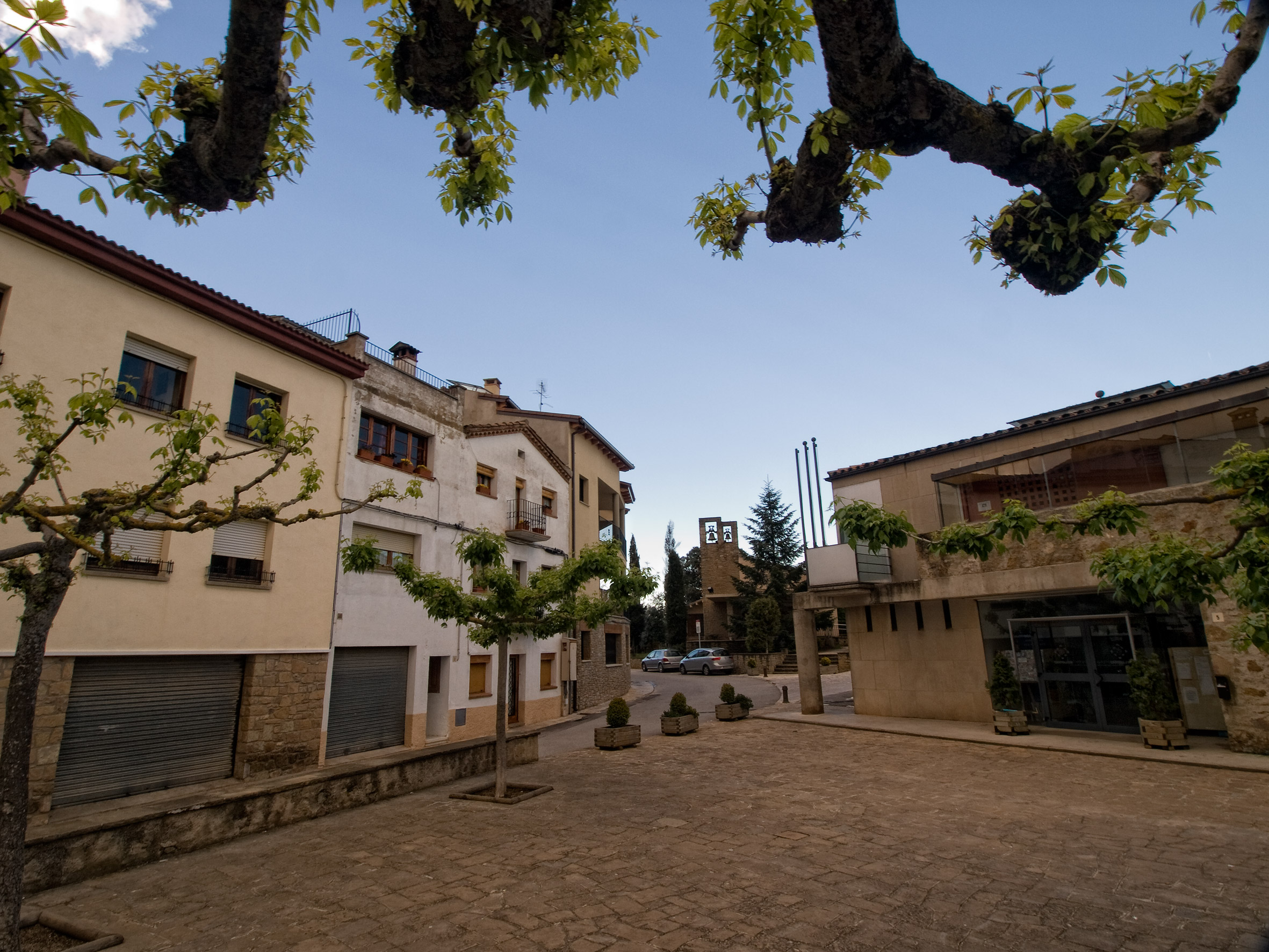 Castellcir Square